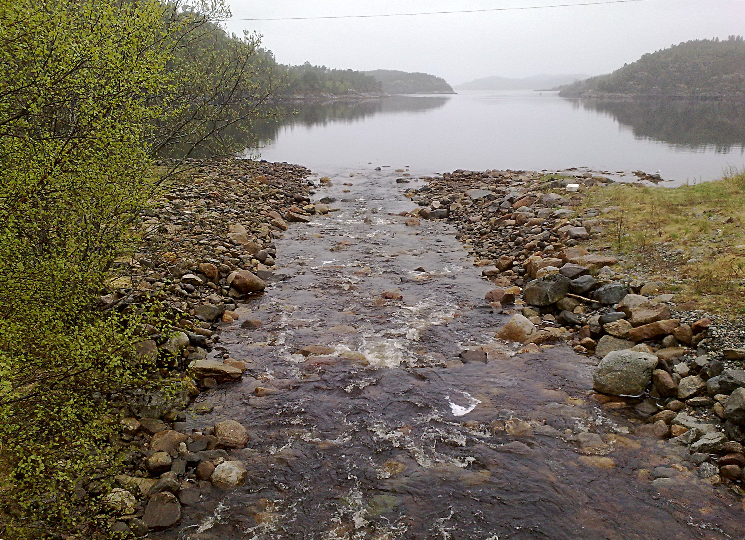 The river Elgå in Salsbruket, Nærøy, Norway.